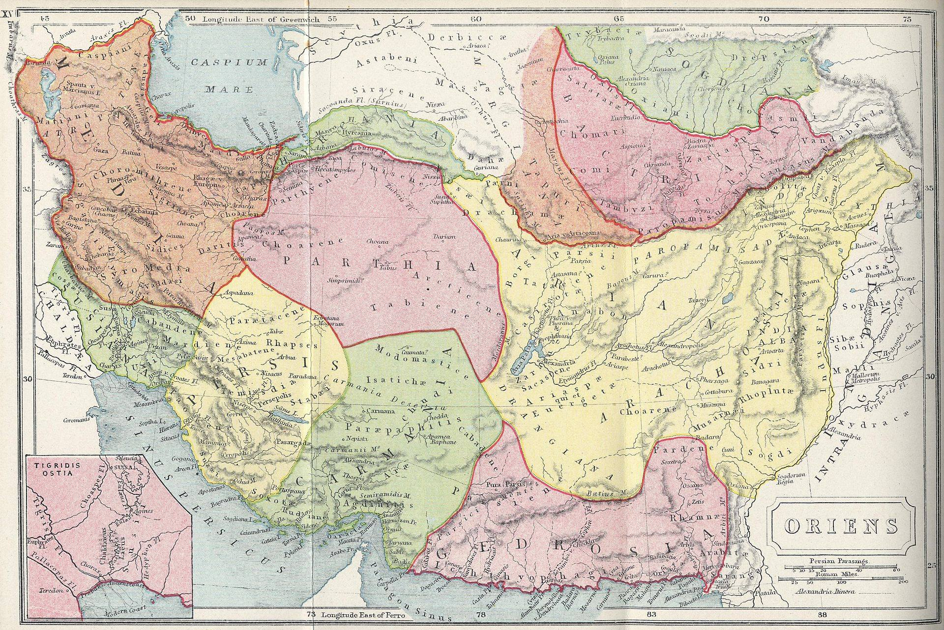 The Atlas of Ancient and Classical Geography by Samuel Butler